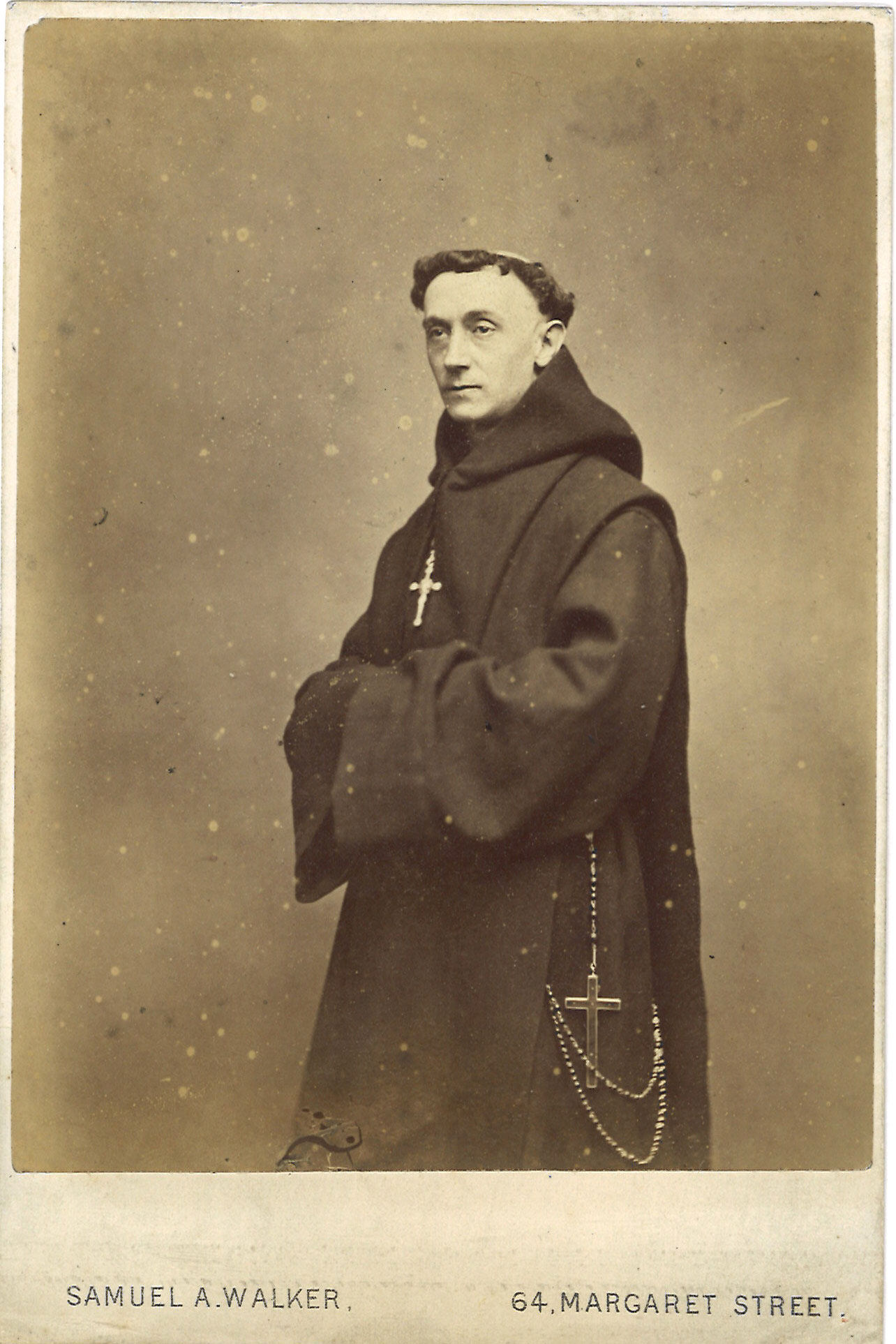 Carte de visite of Ignatius of Llanthony